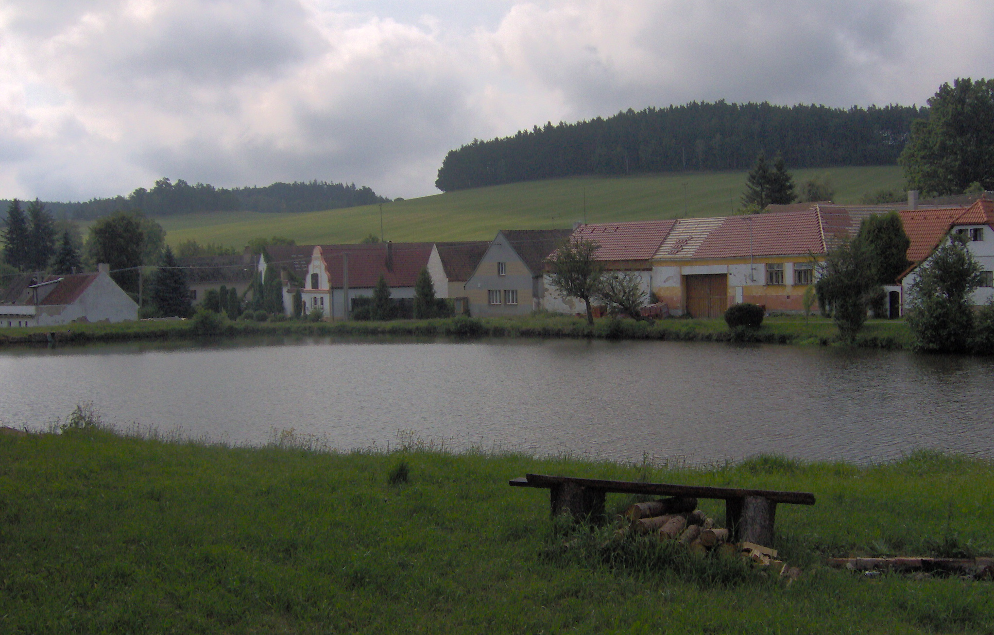 Pond in Měkynec, Strakonice District, Czech republic